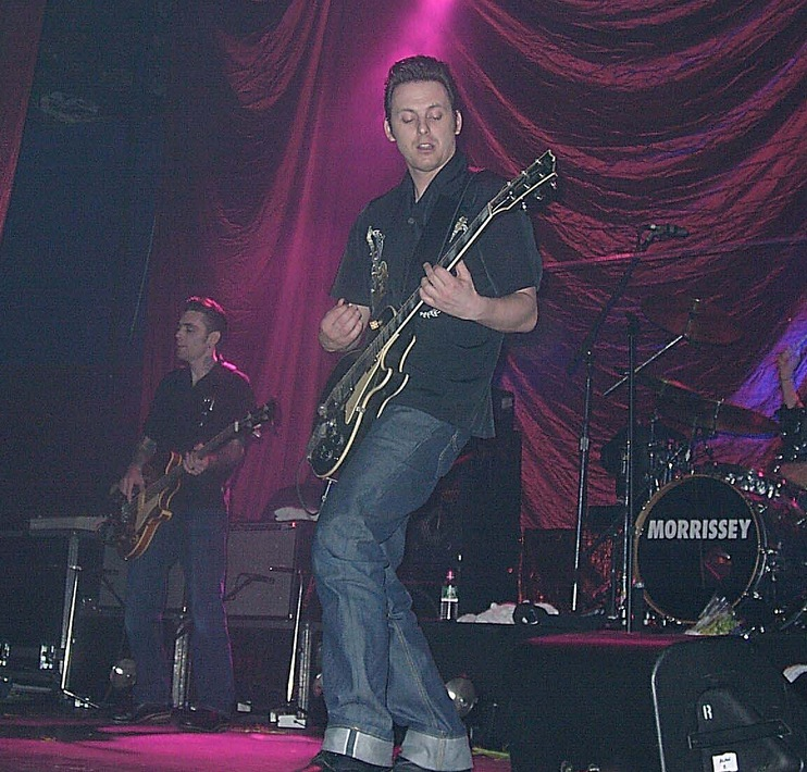 Alain Whyte playing at a Morrissey concert. Roseland Ballroom, New York City